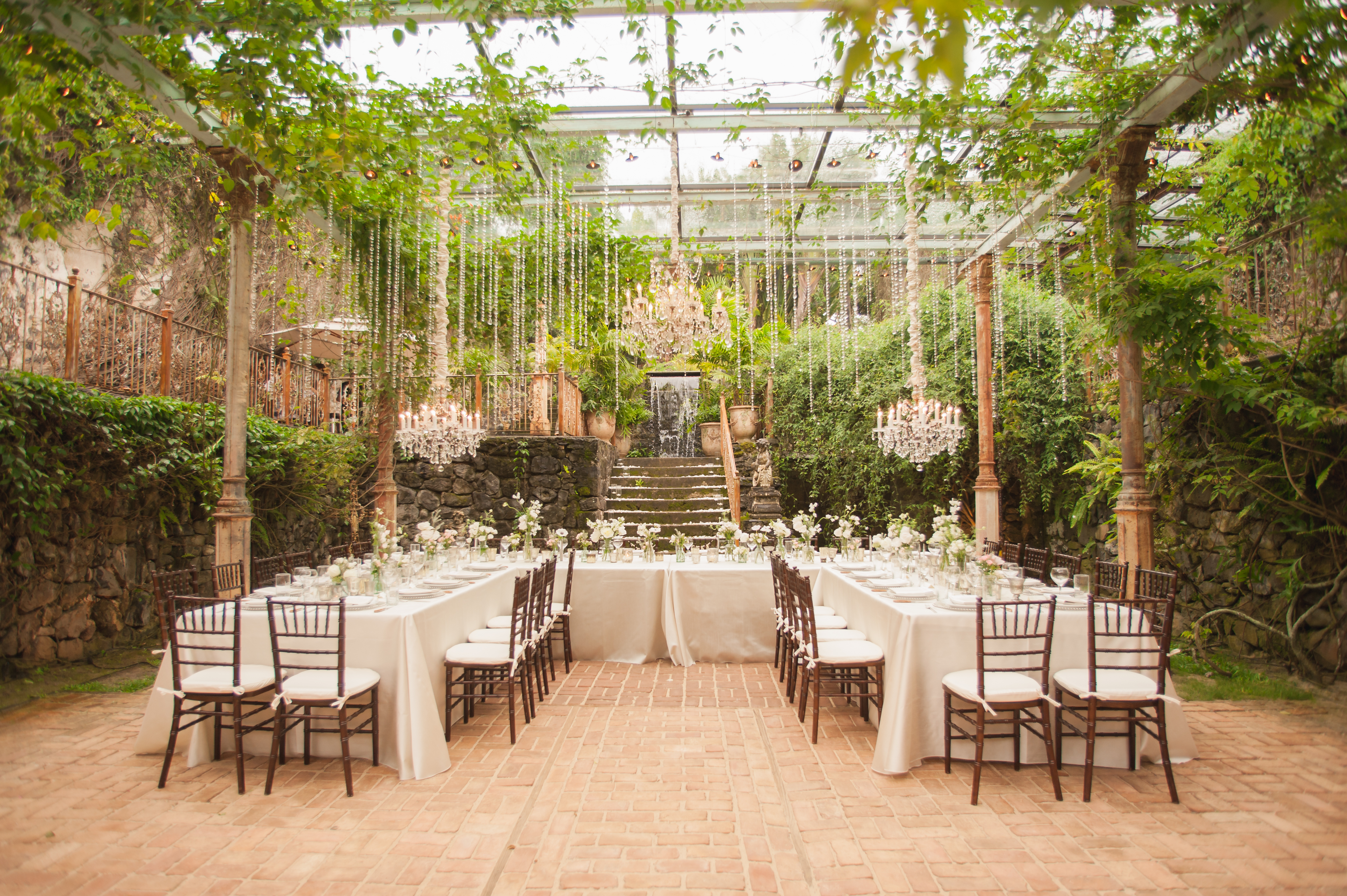 This shot is a perfect example of wedding design and styling.